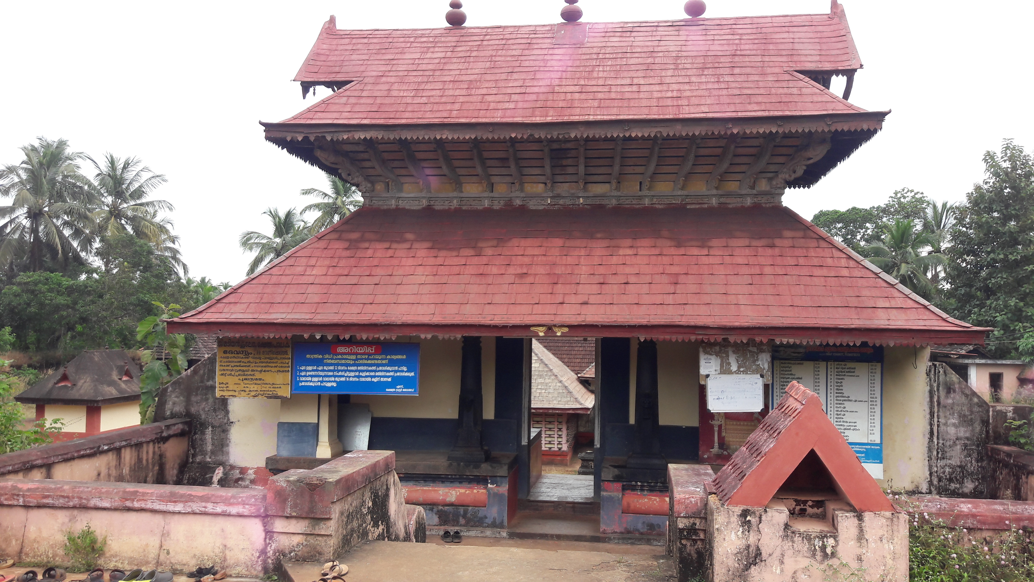 Madiyan Koolom Temple, Kasargode, Kerala, India